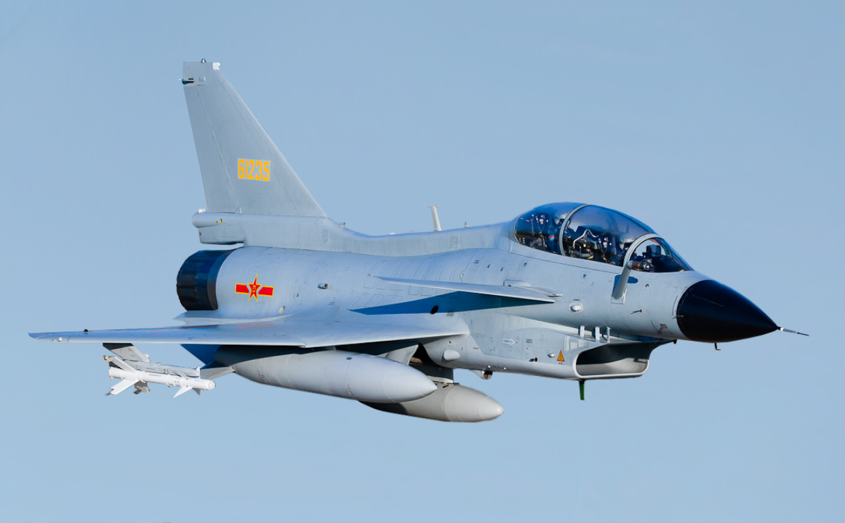 Chengdu J-10 pasted into a generic cloudscape